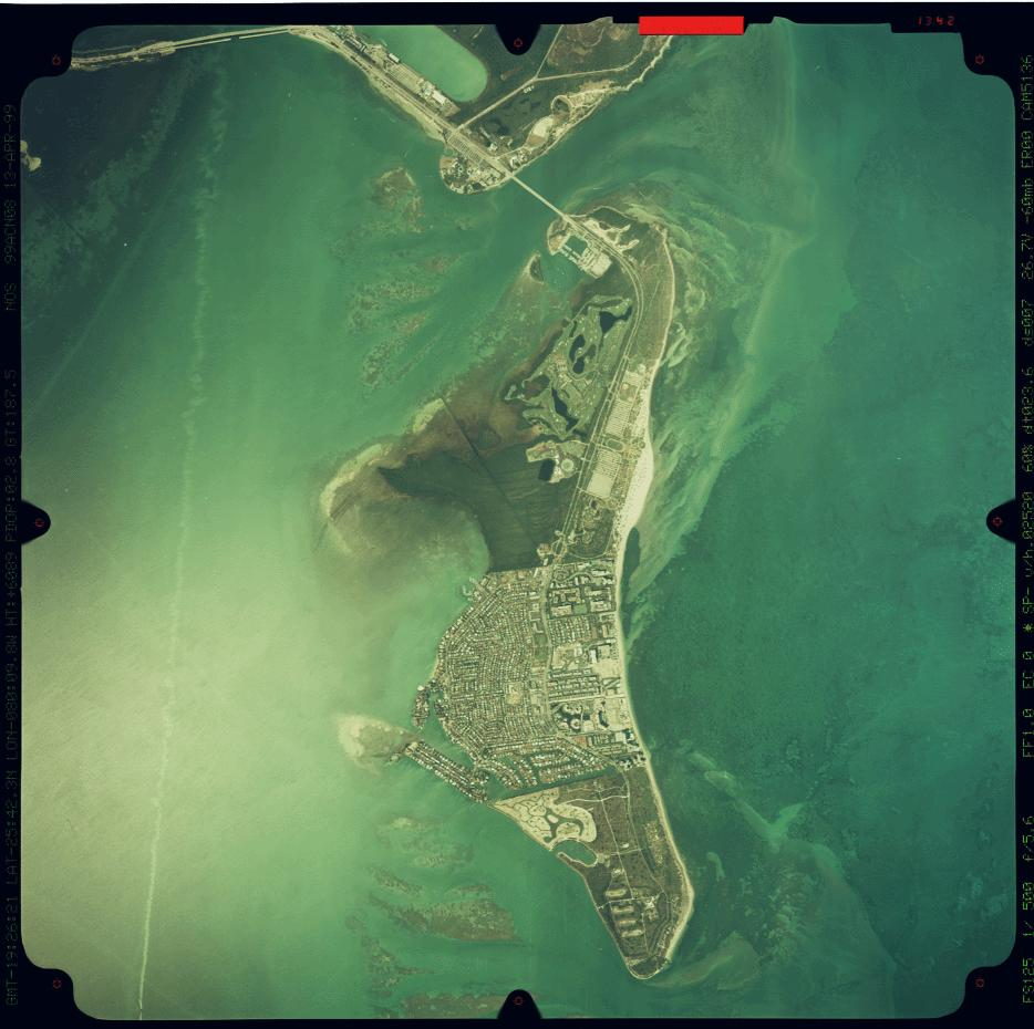 Downloaded from Aerial photograph 5WPA1342, 1999. Scale 1:40000, azimuth 187.6, 25.70489° N, 80.16356° W. (Coastal Aerial Photography, NOAA/National Ocean Service.